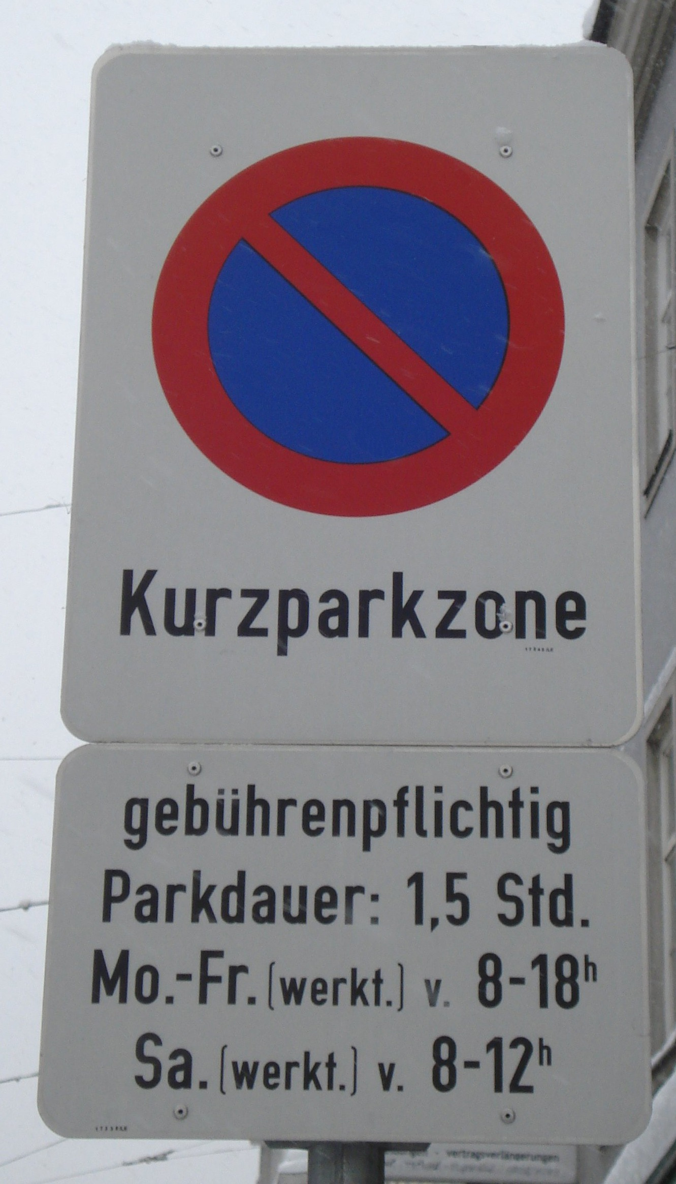 Traffic sign at the beginning of a short-term parking zone in a shopping street in Vienna/Austria.